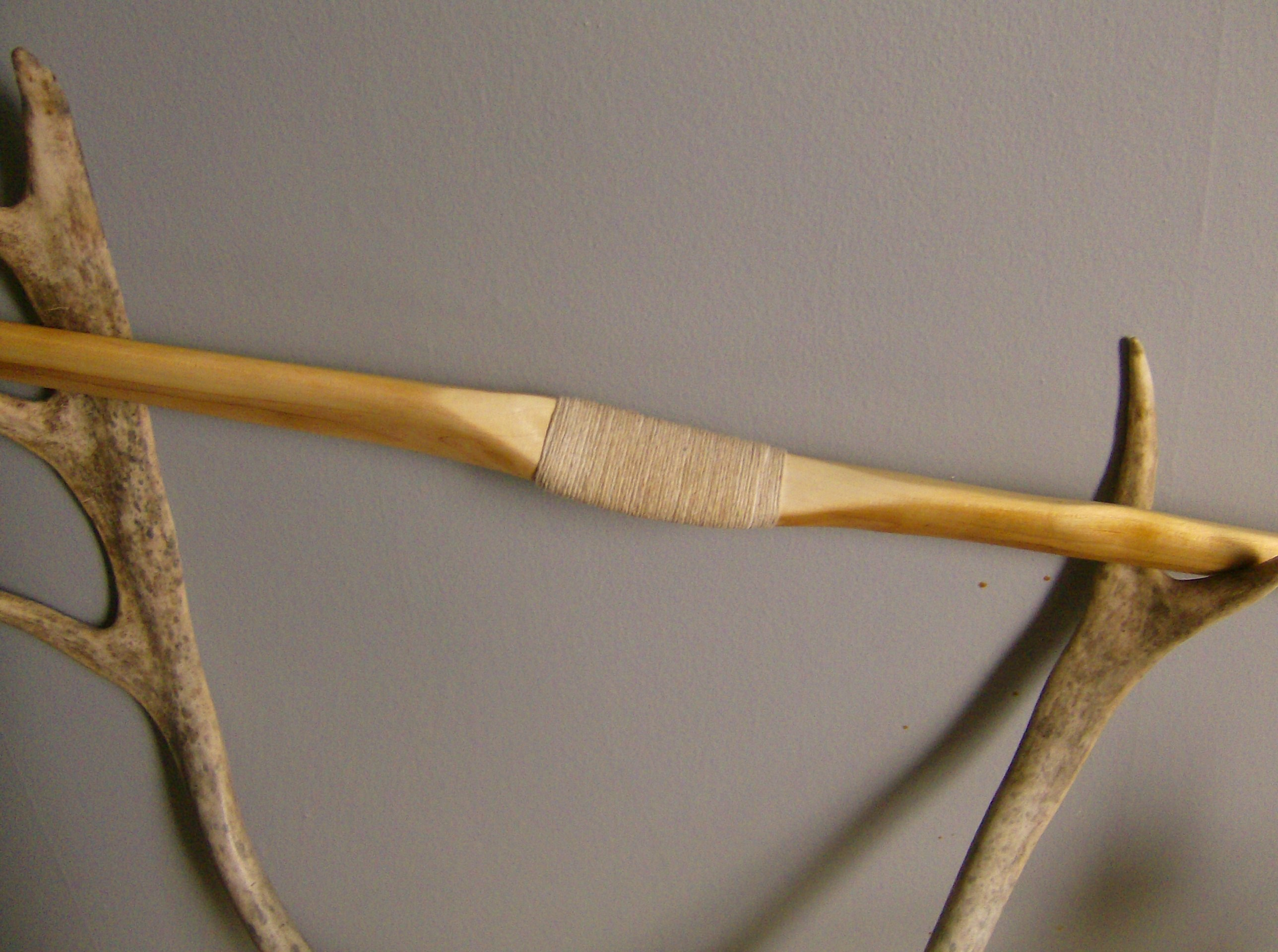 A closeup of the handle of a Holmegaard type bow.